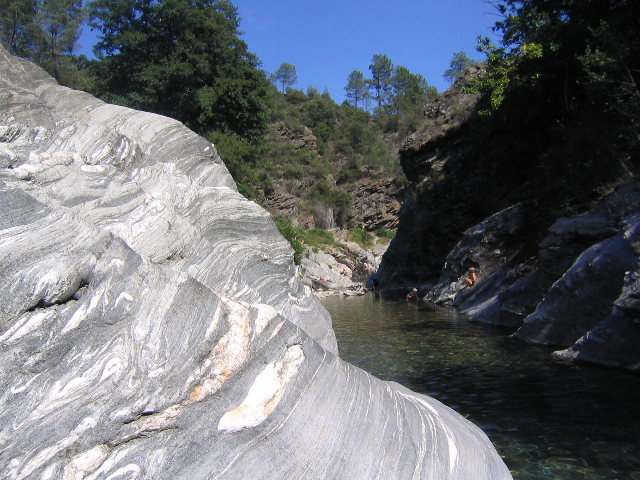 The river Gardon between the rocks at the Martinet, Saint Etienne Vallée Française , Lozère, France